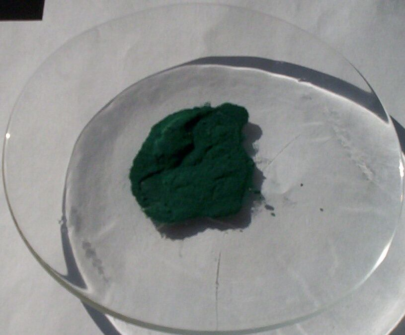 A sample of rhodium(II) acetate dimer. Picture taken by User:Walkerma, March 2006.